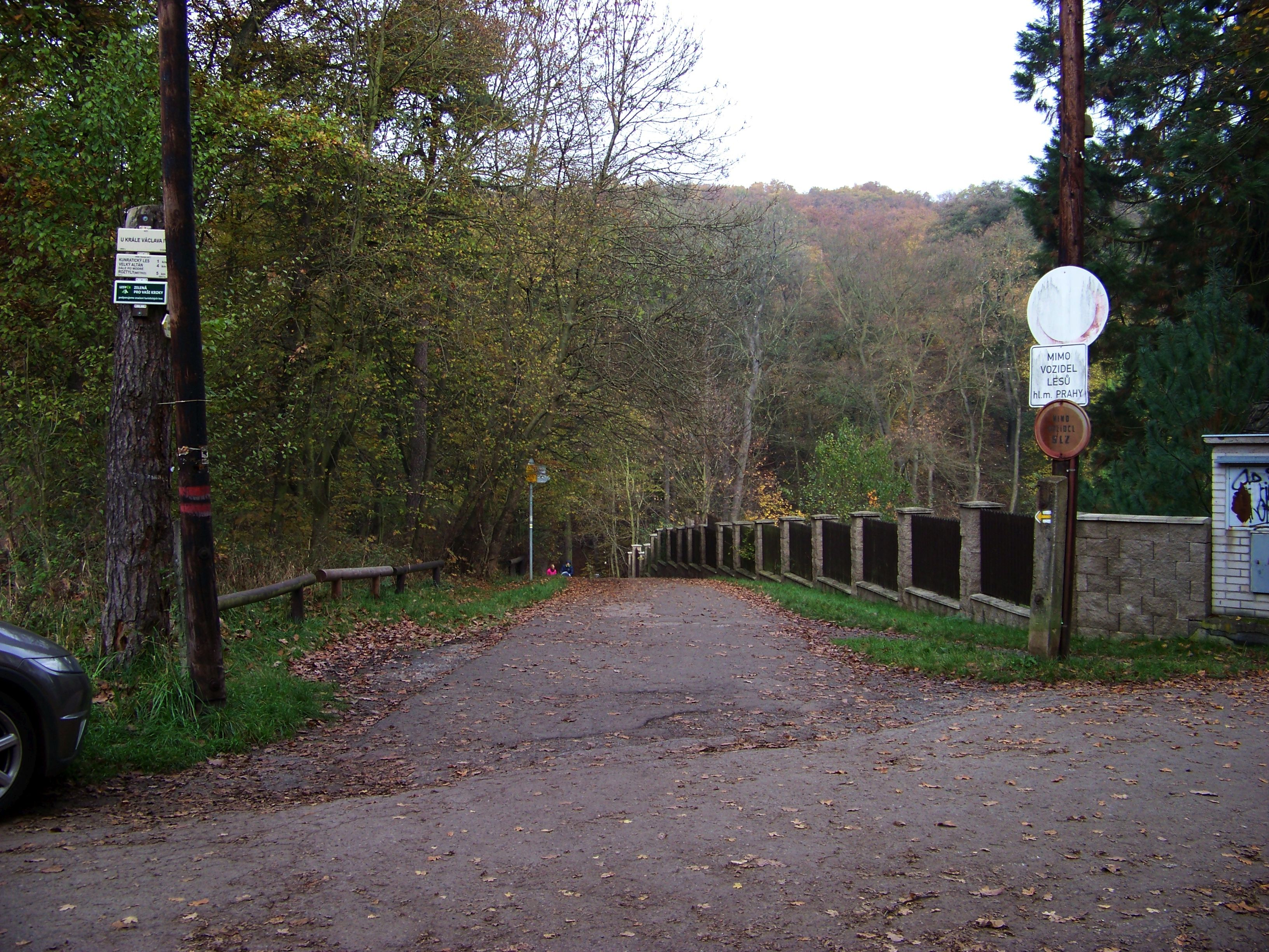 Prague-Kunratice, Czech Republic. Kunratice Forest, U Krále Václava IV., a road.